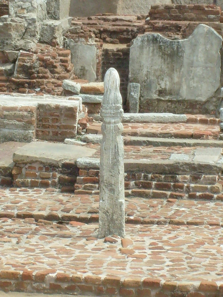 Stone Vel atop a brick platform, Saluvankuppam Subrahmanya temple